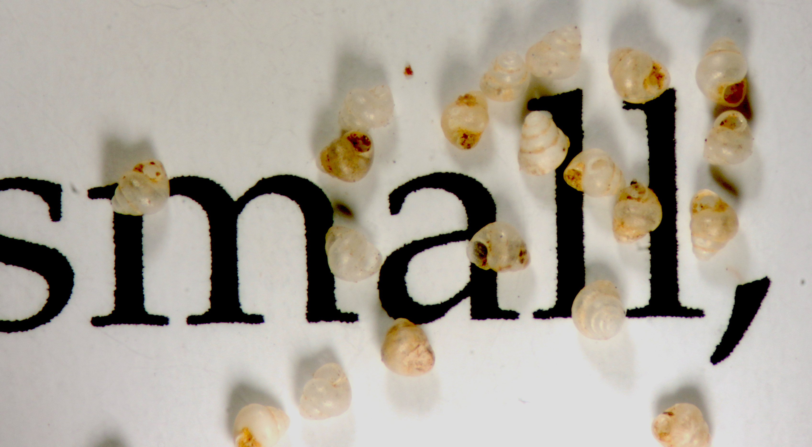 Shells of the world's smallest land snail, Acmella nana, from Borneo, on 12 pt print. The species was published in 2015 in ZooKeys.